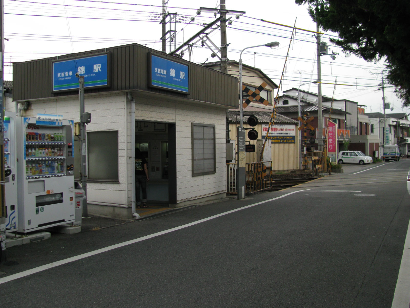 Nishiki Station on Keihan Ishiyama Sakamoto Line